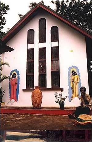 I took this picture of the Bob Marley Mausoleum using my own camera.